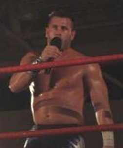 A picture of Alex Shelley i took at PWG show in Cincinnati Ohio in 2006